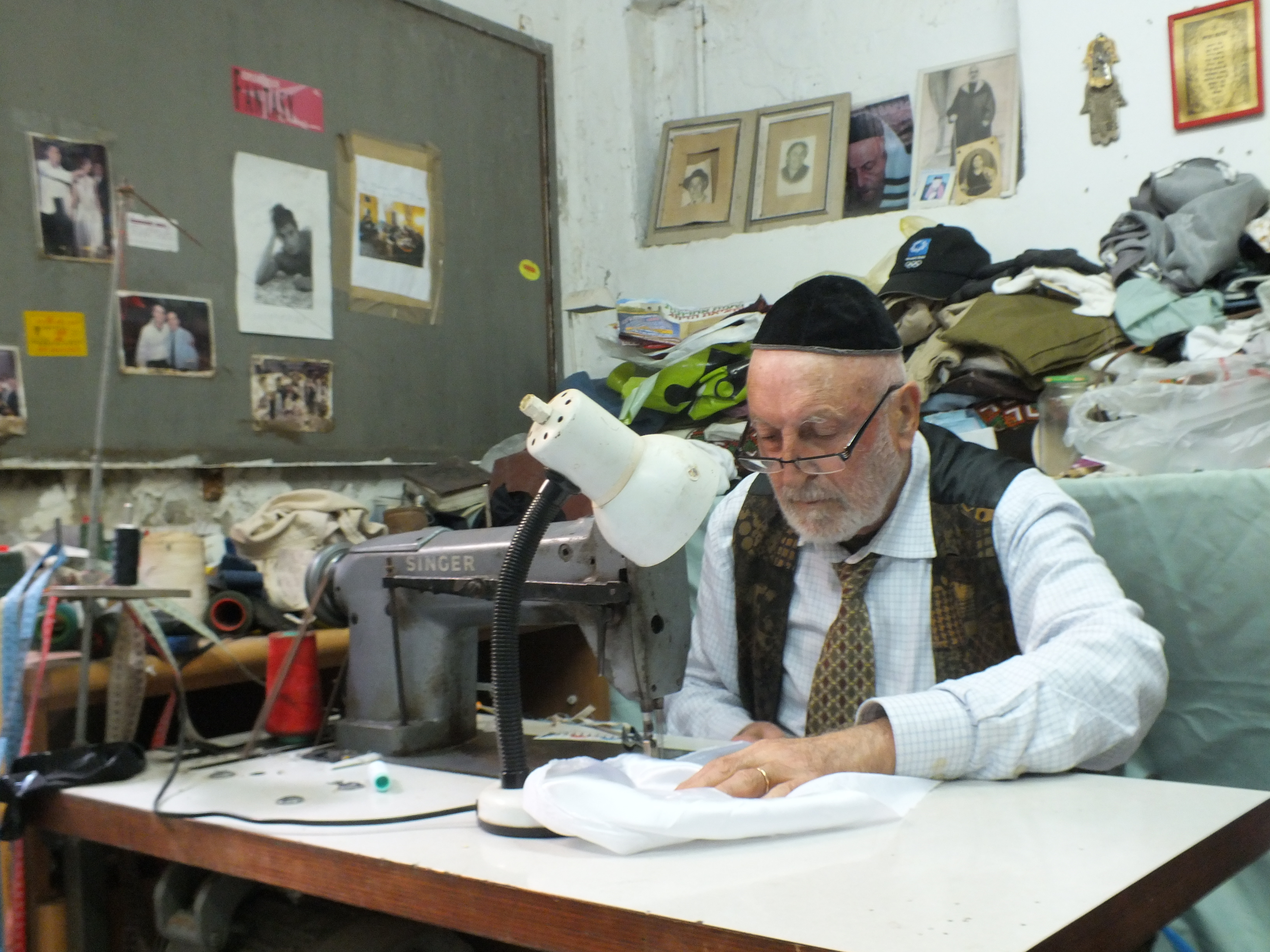 Benjamin (better pronounced the French way) is sitting in his narrow crypty workshop in central Hadar with the outmoded Singer, and making clothes for the residents, from whom he also receives repair works. He has three sons, all maried - of whom one lives in San Francisco and another in Ramat HaSharon, and is very proud of them. He came from Paris, and his elitist mellah accent when practicing both French and Hebrew is anything but a shameface. He travels the bus from his Kiryat Ata home each morning, including Fridays, always with the necktie on. “A habit” - he shoots the one-word explanation straight without letting his eyes from the fabric.